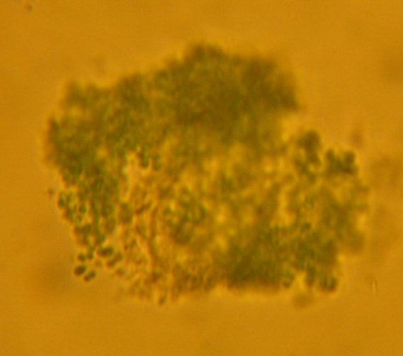 Microcystis sp. Eutrophic lake. Northern Poland. A blue-green alga causing algal blooms.